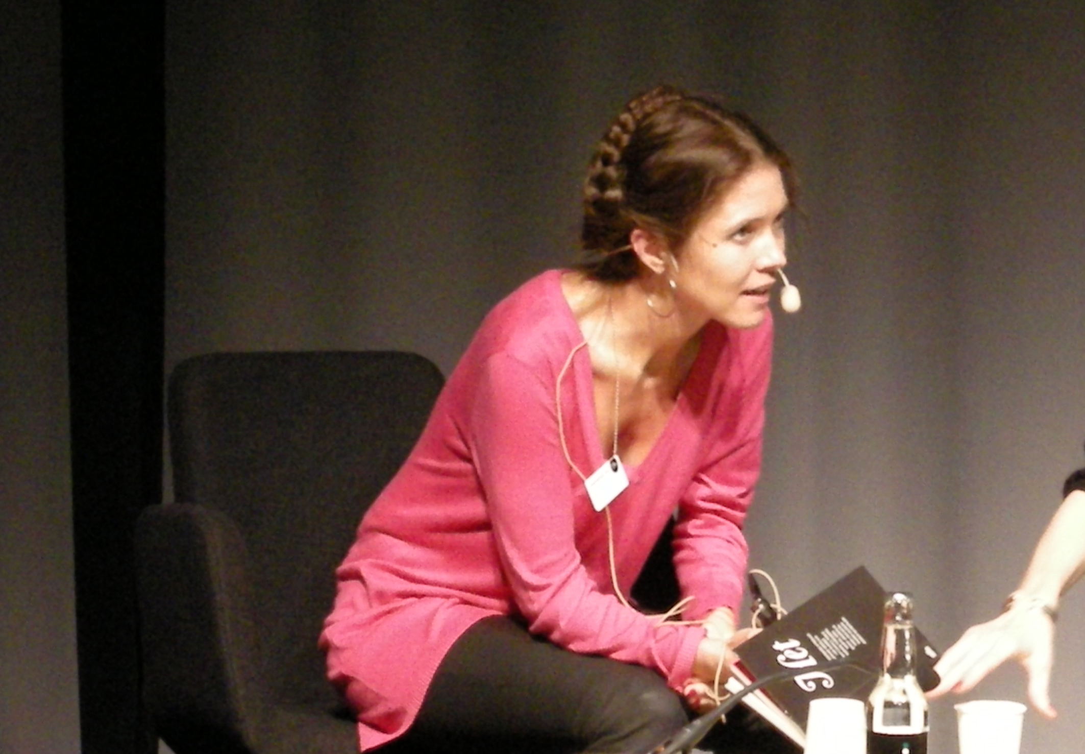 Swedish writer Åsa Anderberg Strollo at Göteborg Book Fair 2012